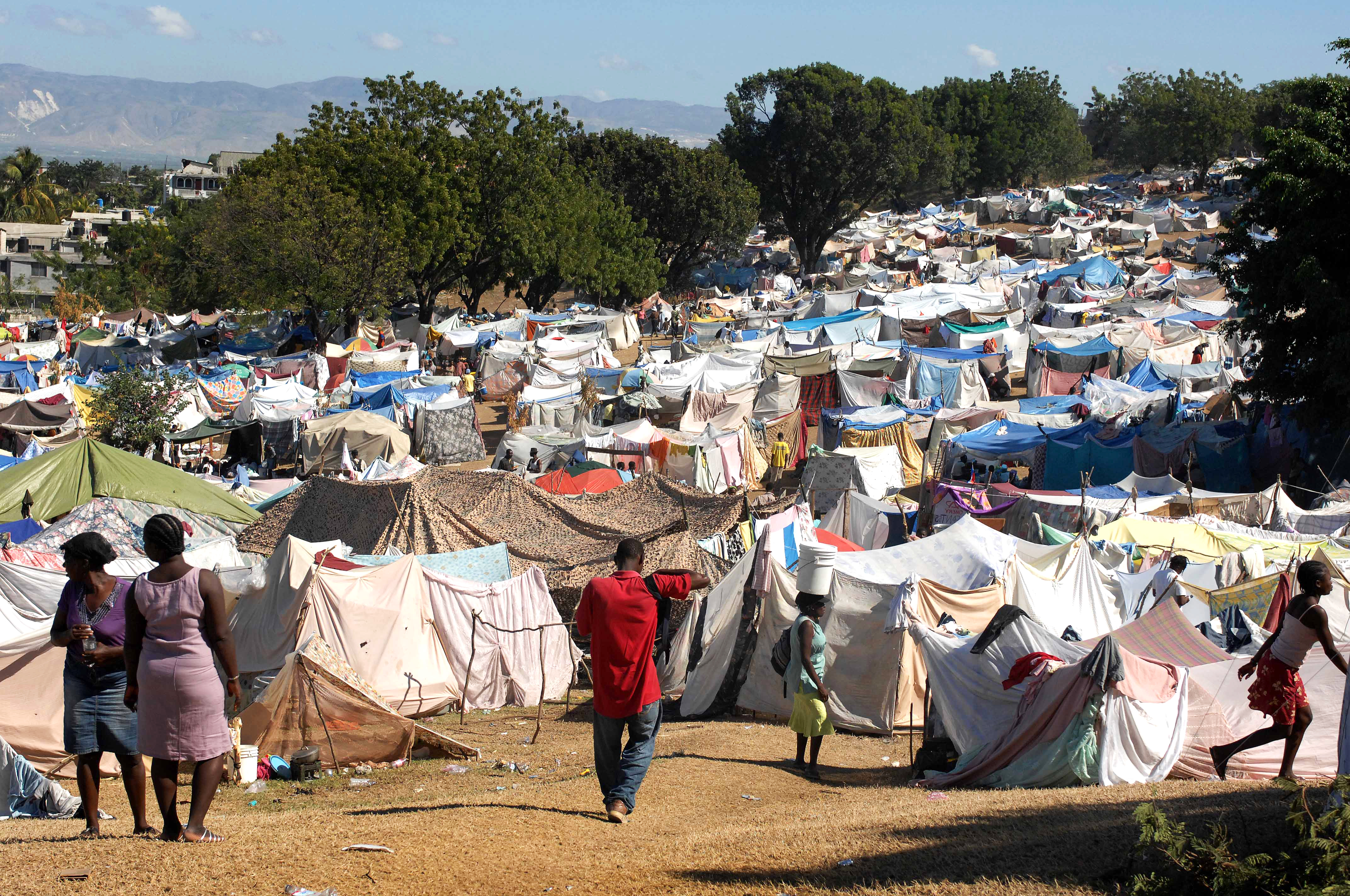 As many as 50,000 Haitians sleep in this earthquake survivor camp in the Del Mas area in Port-au-Prince, Haiti, Jan. 21, 2010. It has grown by thousands since the U.S. Army 82nd Division's 1st Squadron, 73rd Cavalry Squadron started distributing food and water there last week. VIRIN: 100121-D-1852B-0614a